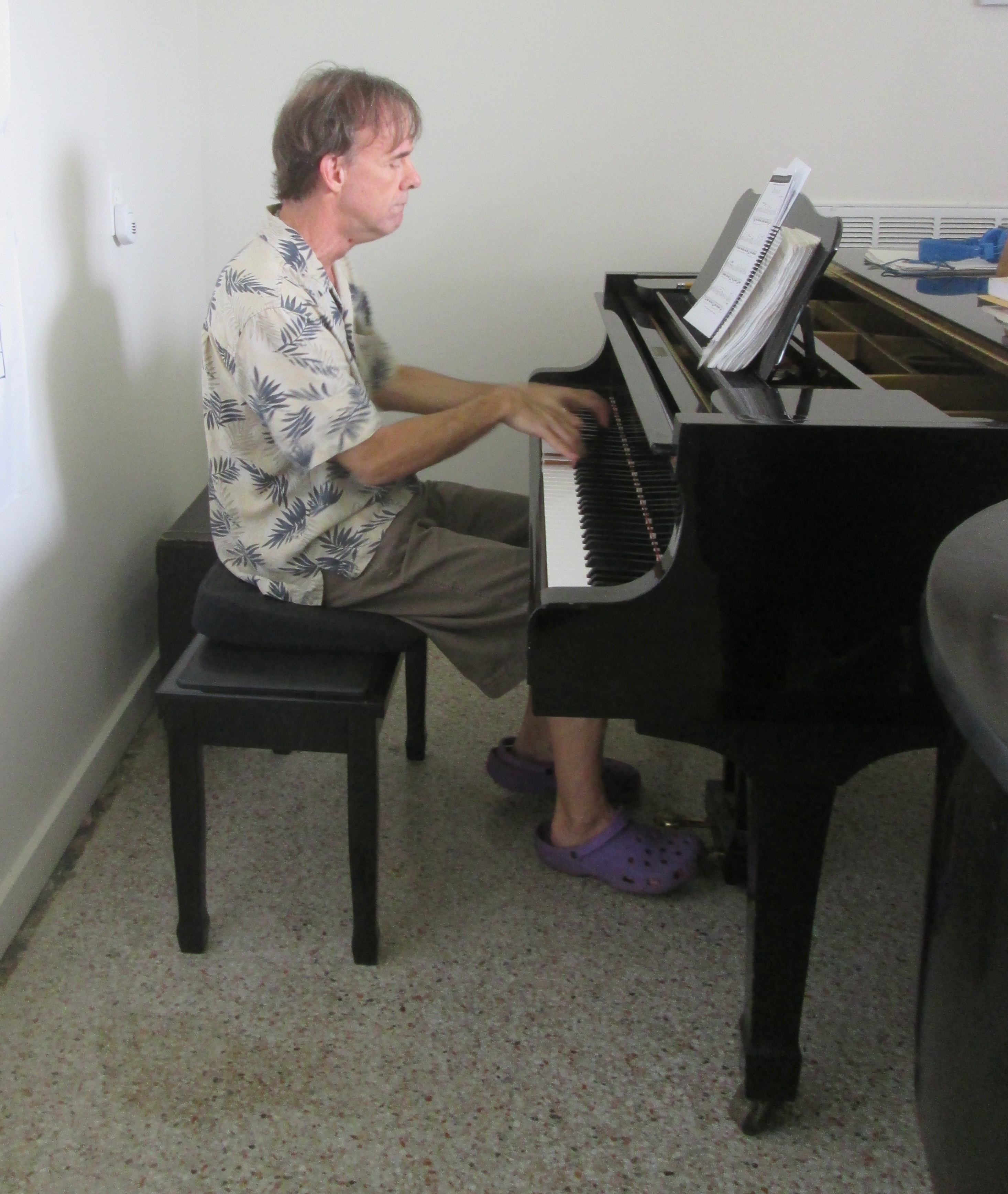 Tom McDermott plays piano, New Orleans